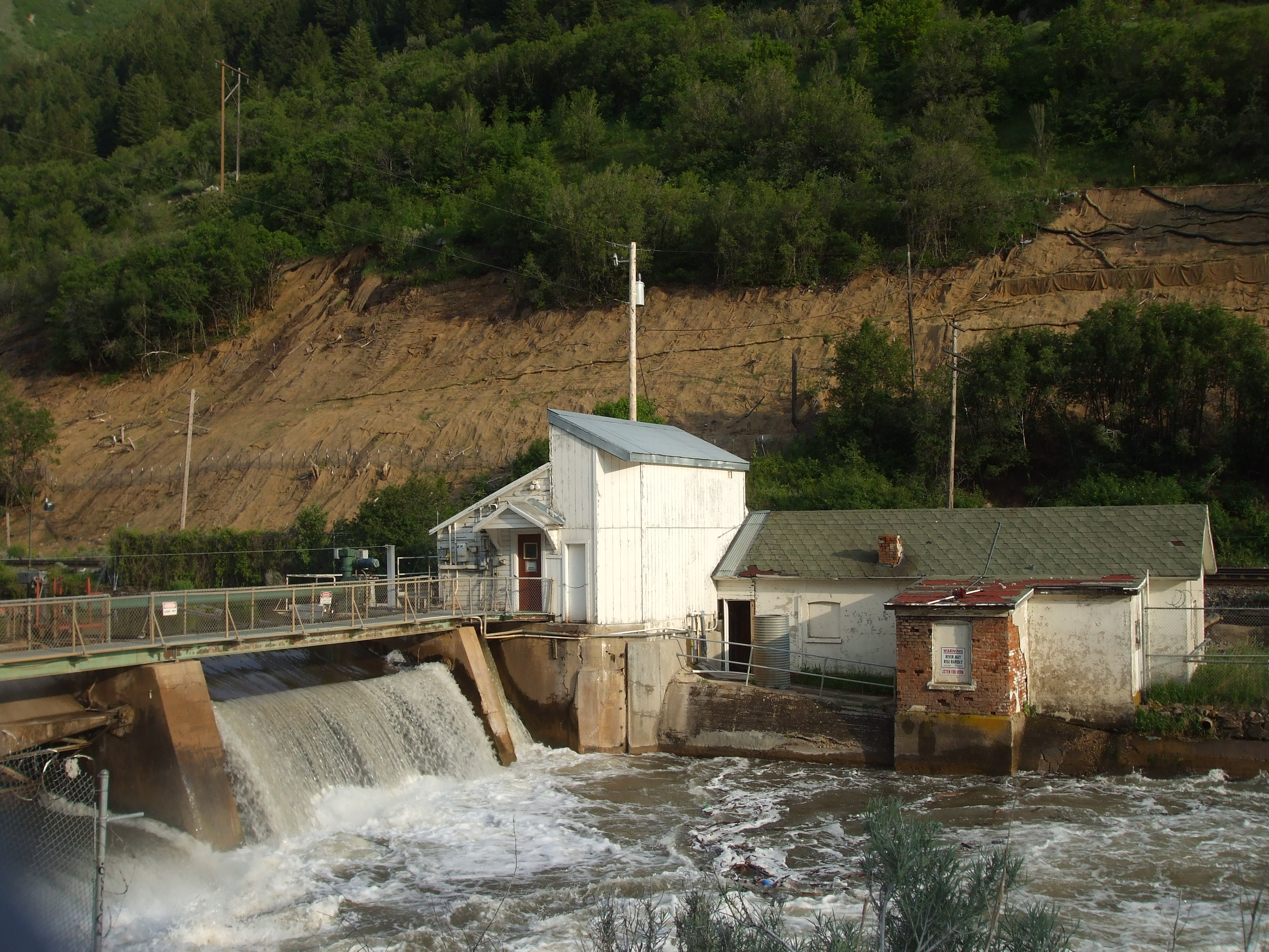 The historic Weber Dam on the Weber River, one of two non-contiguous components of the Devil's Gate–Weber Hydroelectric Power Plant Historic District located in Weber Canyon, Utah, United States.